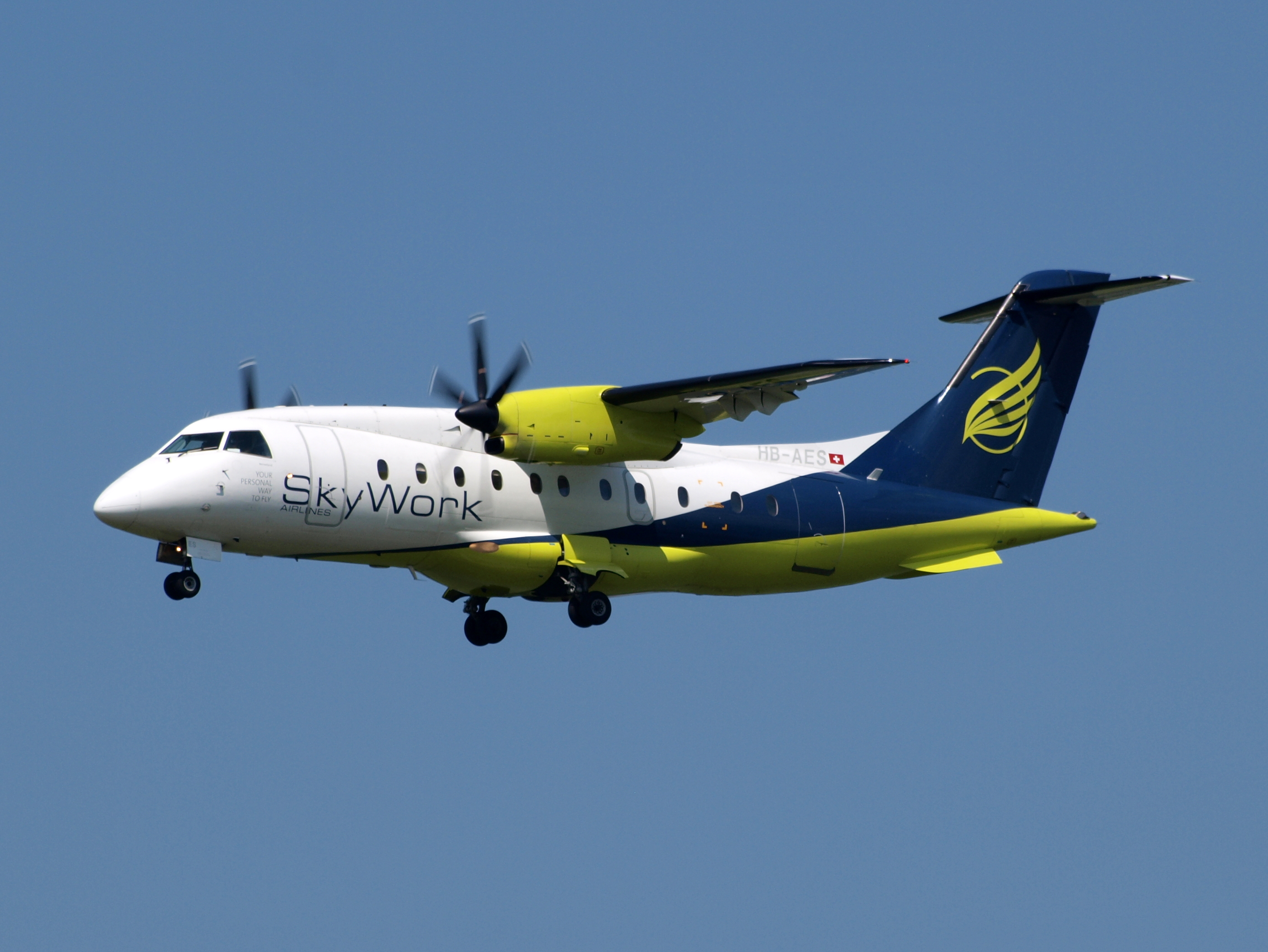 Photographed at Amsterdam airport Schiphol, the Netherlands.